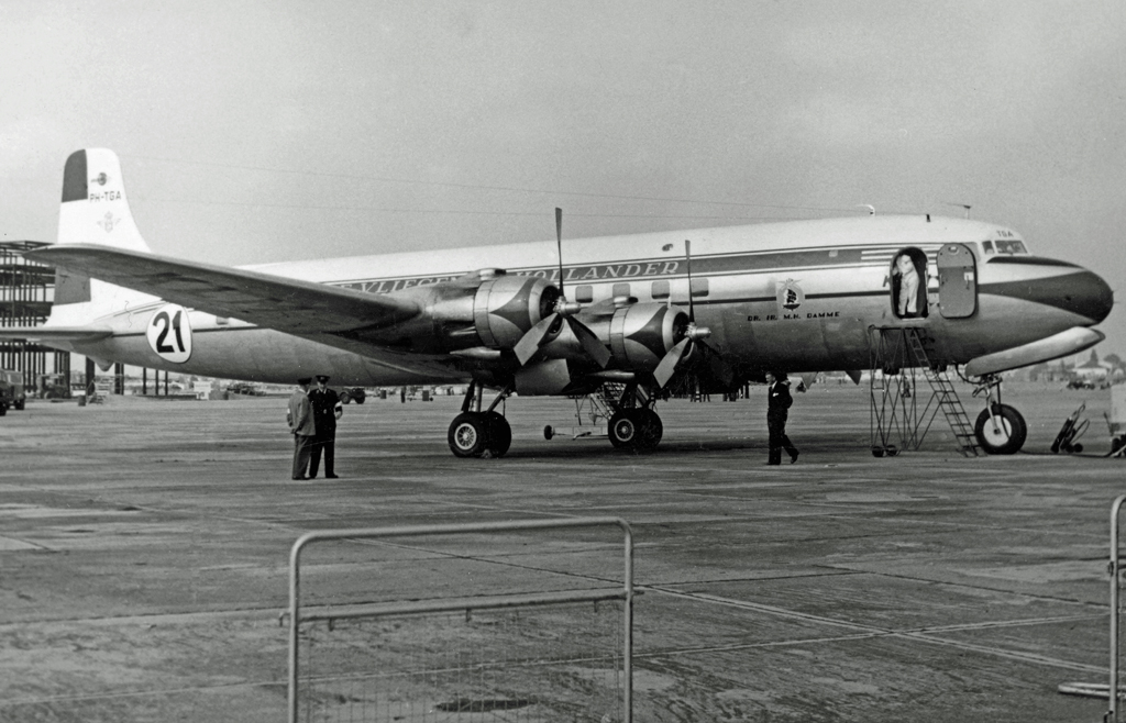 Douglas DC-6A PH-TGA of KLM Royal Dutch Airlines at London Heathrow wearing racing number 21 when competing in the 1953 London-Christchurch Air Race